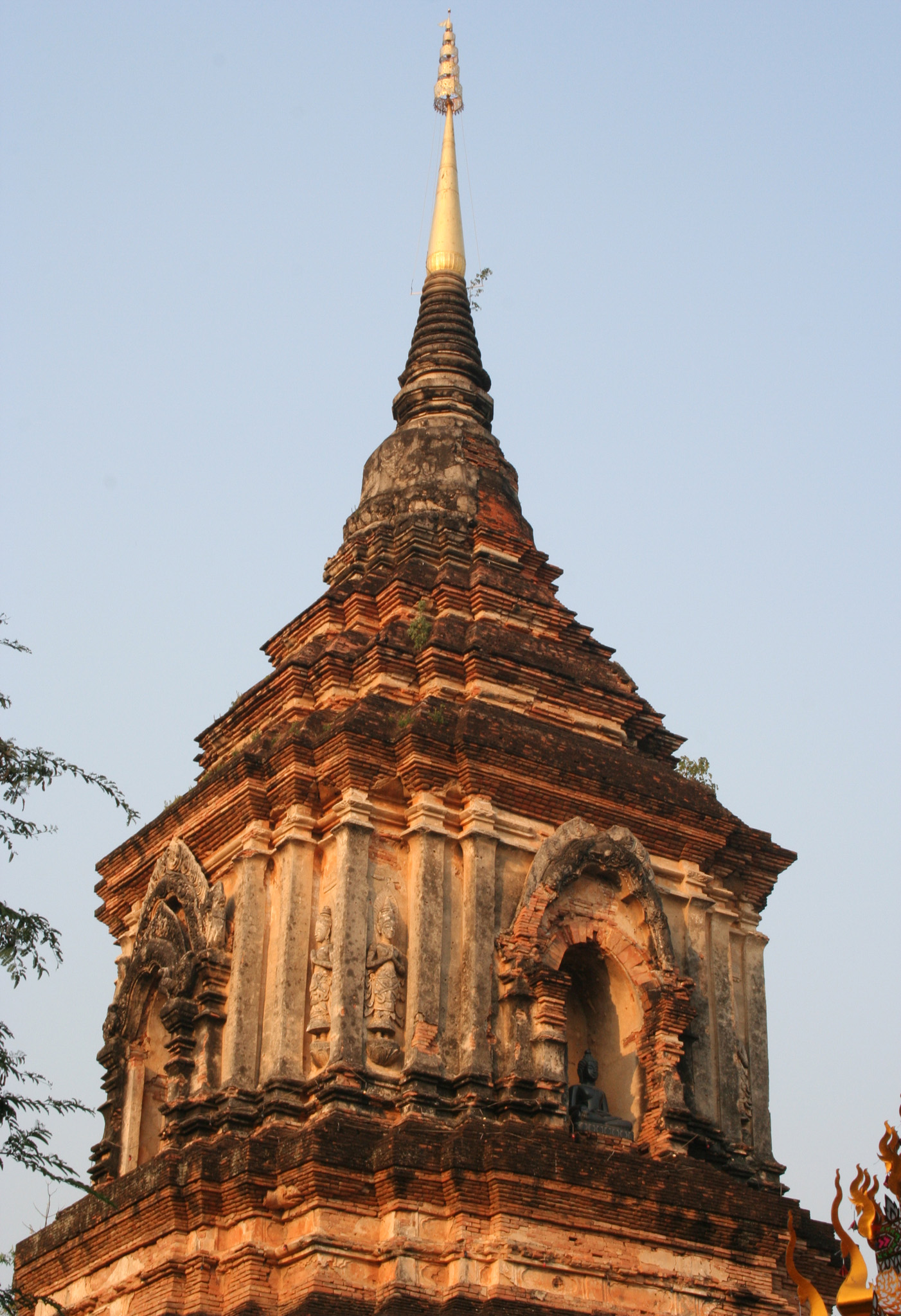 The Chedi of Wat Lok Molee in Chiang Mai, Thailand